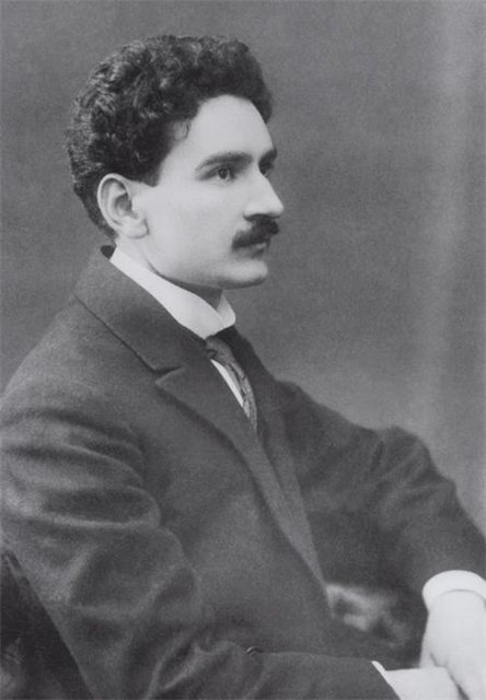 Painter Martiros Saryan